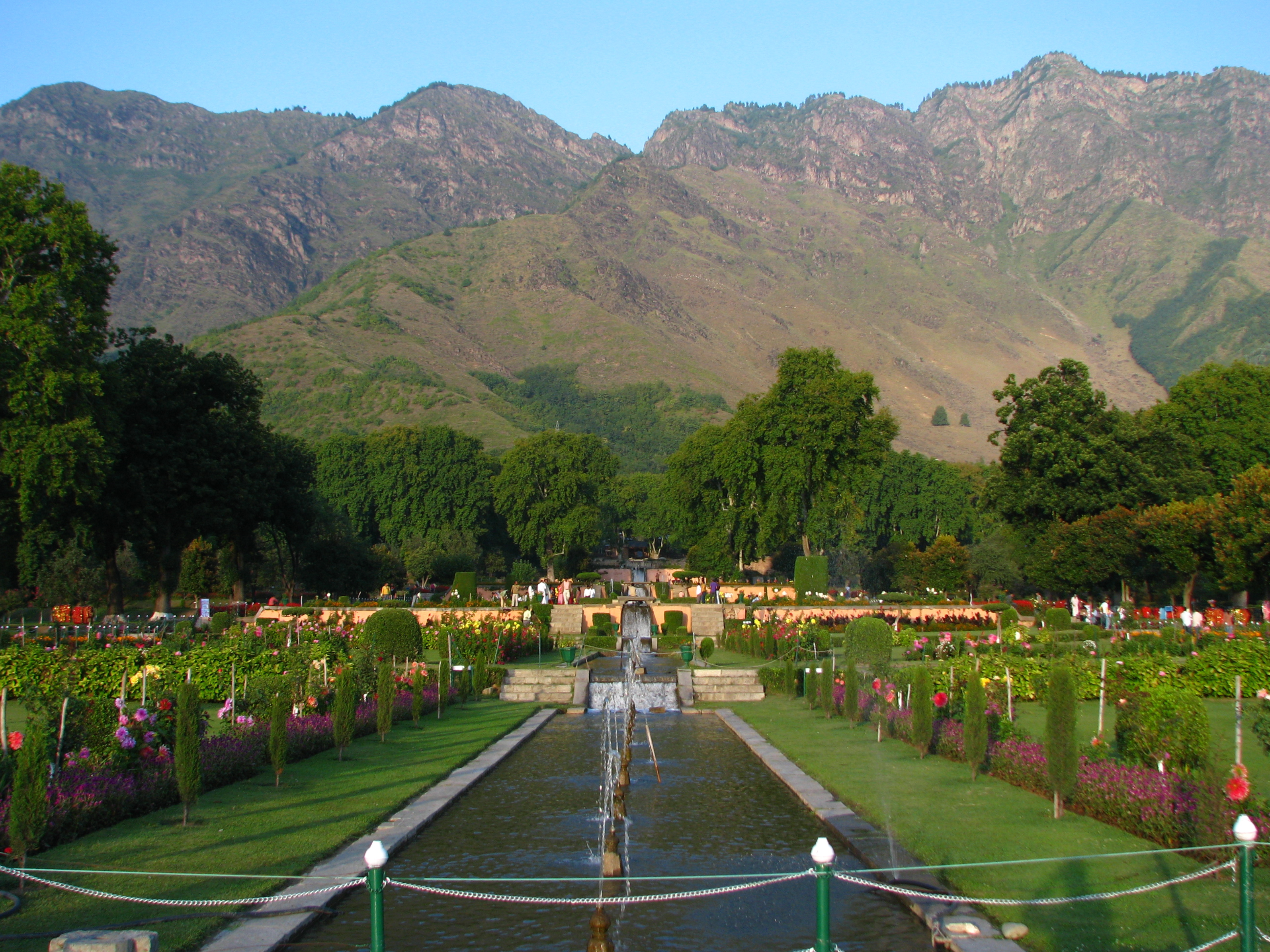 Beautiful Nishar Bagh Mughal Gardens and its twelve descending terraces of water and flowers.